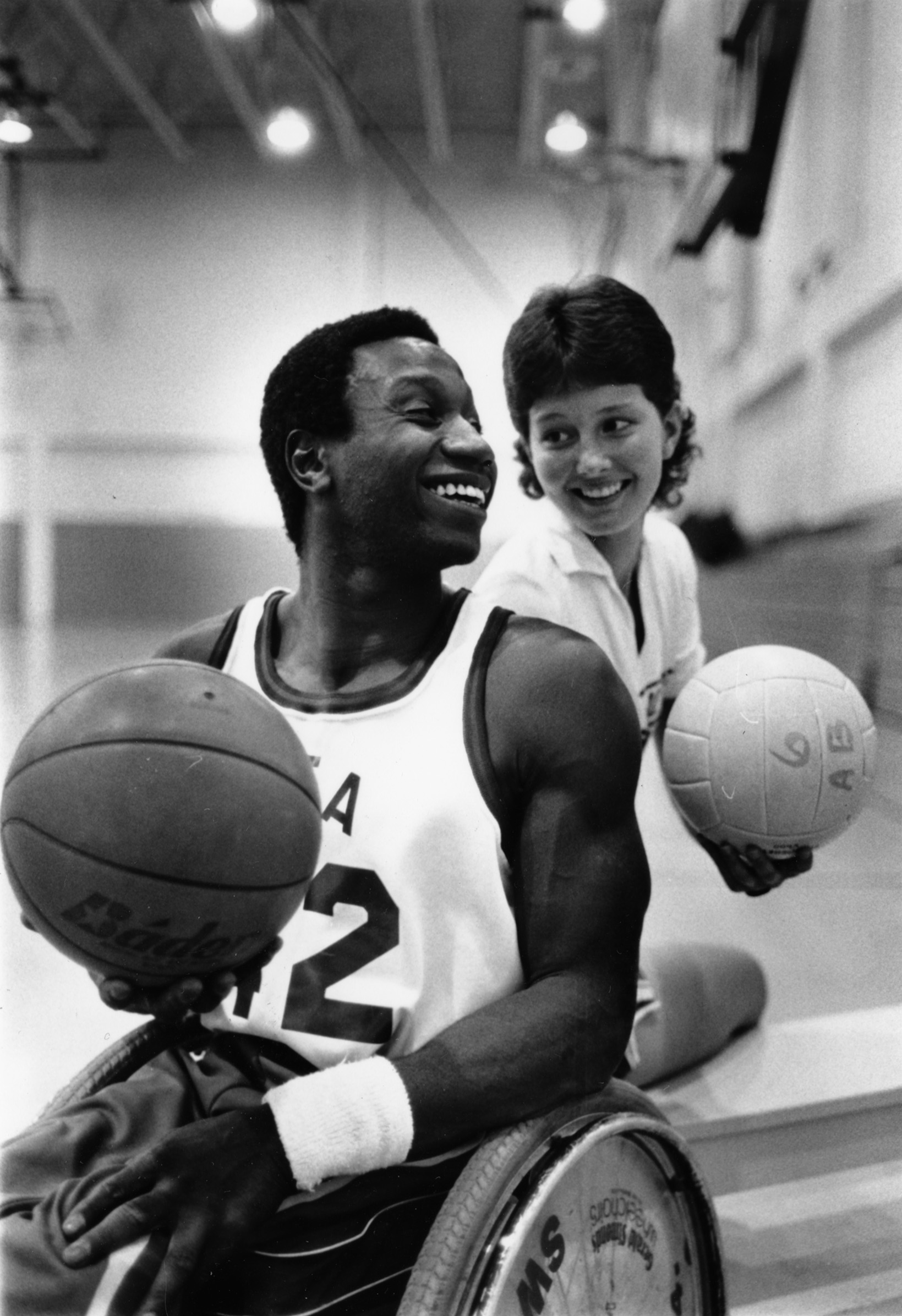 UTA Freewheeler player Abu Yiller (left) with Judith McGill (right) from the volleyball team.